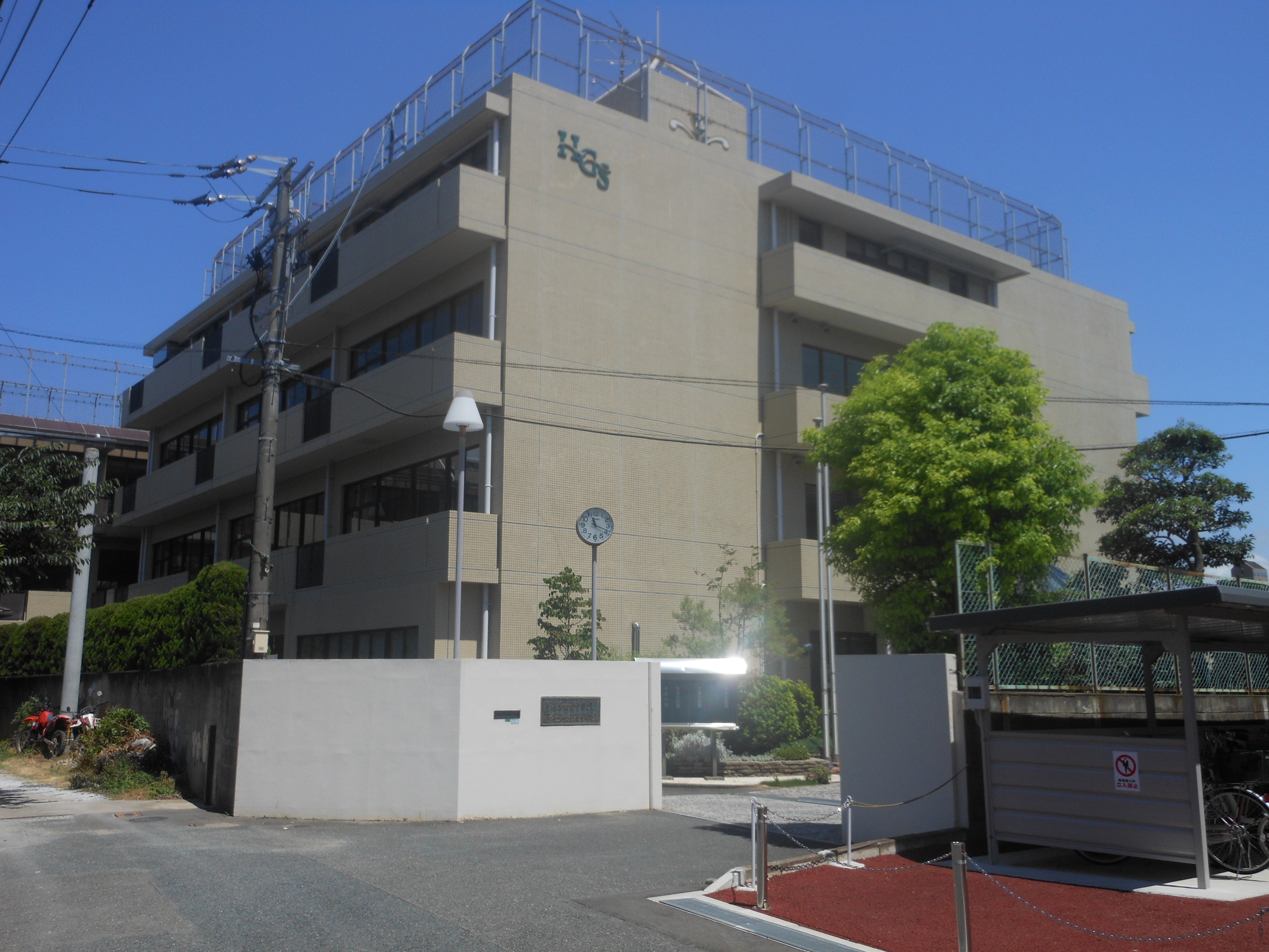 This is the private school in Higashi ward, Fukuoka city, Fukuoka prefecture, Japan.